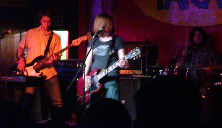 The Reputation performing in Houston in 2005.